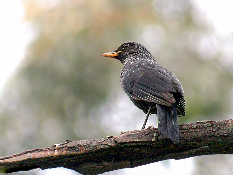 Blue Whistling Thrush Myophonus caeruleus in Kullu District of Himachal Pradesh, India.